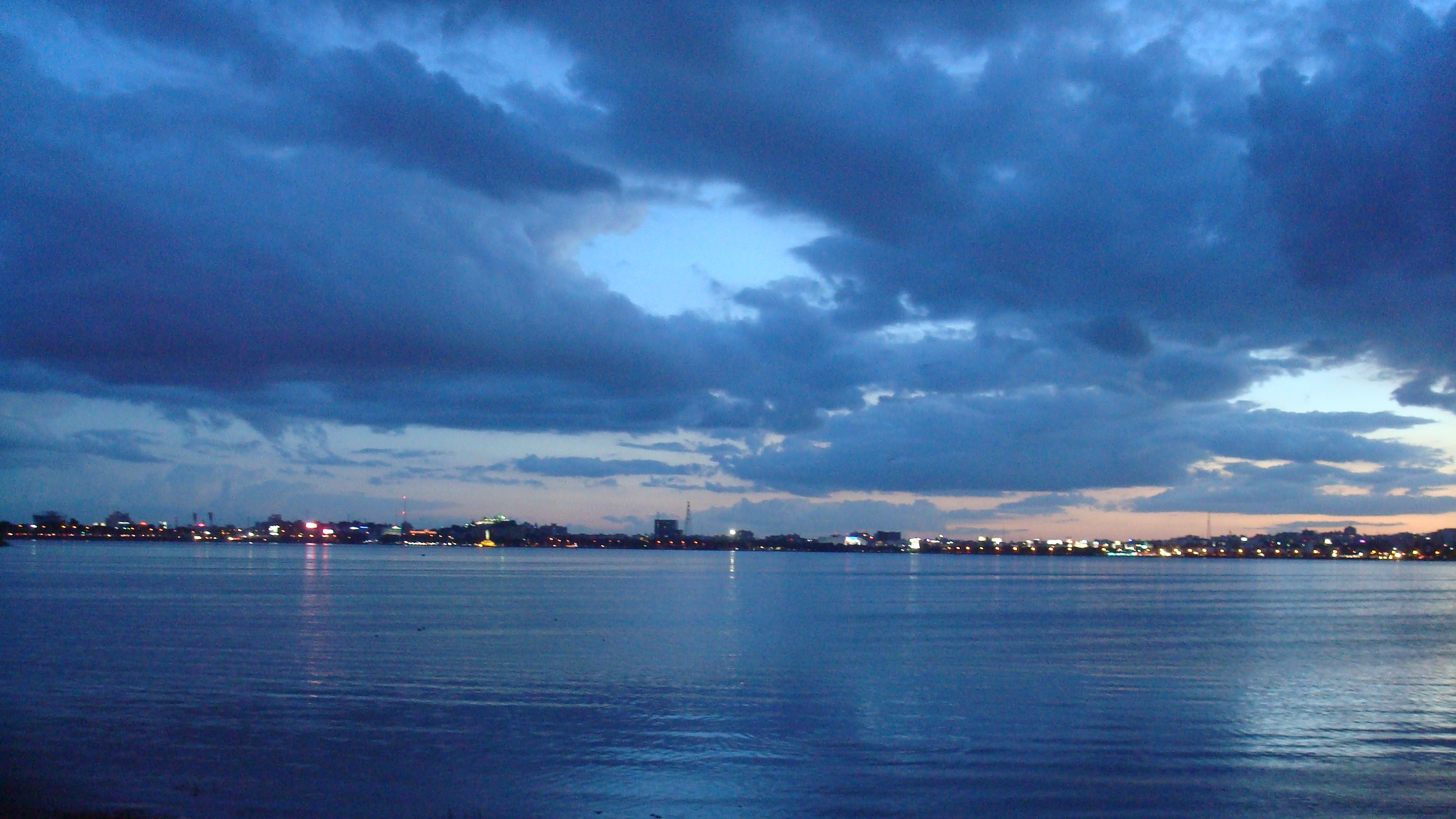 Shown here is the Hussain sagar on a cloudy evening. This lake is a heart shaped jewel which keeps the cities of Hyderabad and Secunderabad together. On its banks lie two important boulevards, Tankbund road and Necklace road, which are frequently thronged by citizens and visitors. self-photographed.